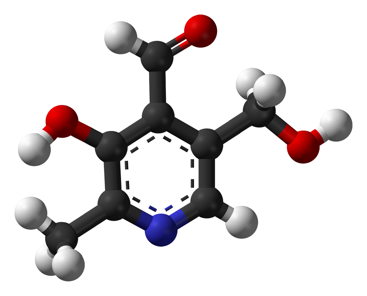 Ball-and-stick model of the pyridoxal molecule, one of the three natural forms of vitamin B6.